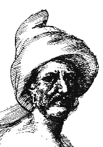 The only surviving original portrait of the prominent Georgian general Giorgi Saakadze was drawn by the Italian missioner Teramo Castelli in Istanbul in 1626.